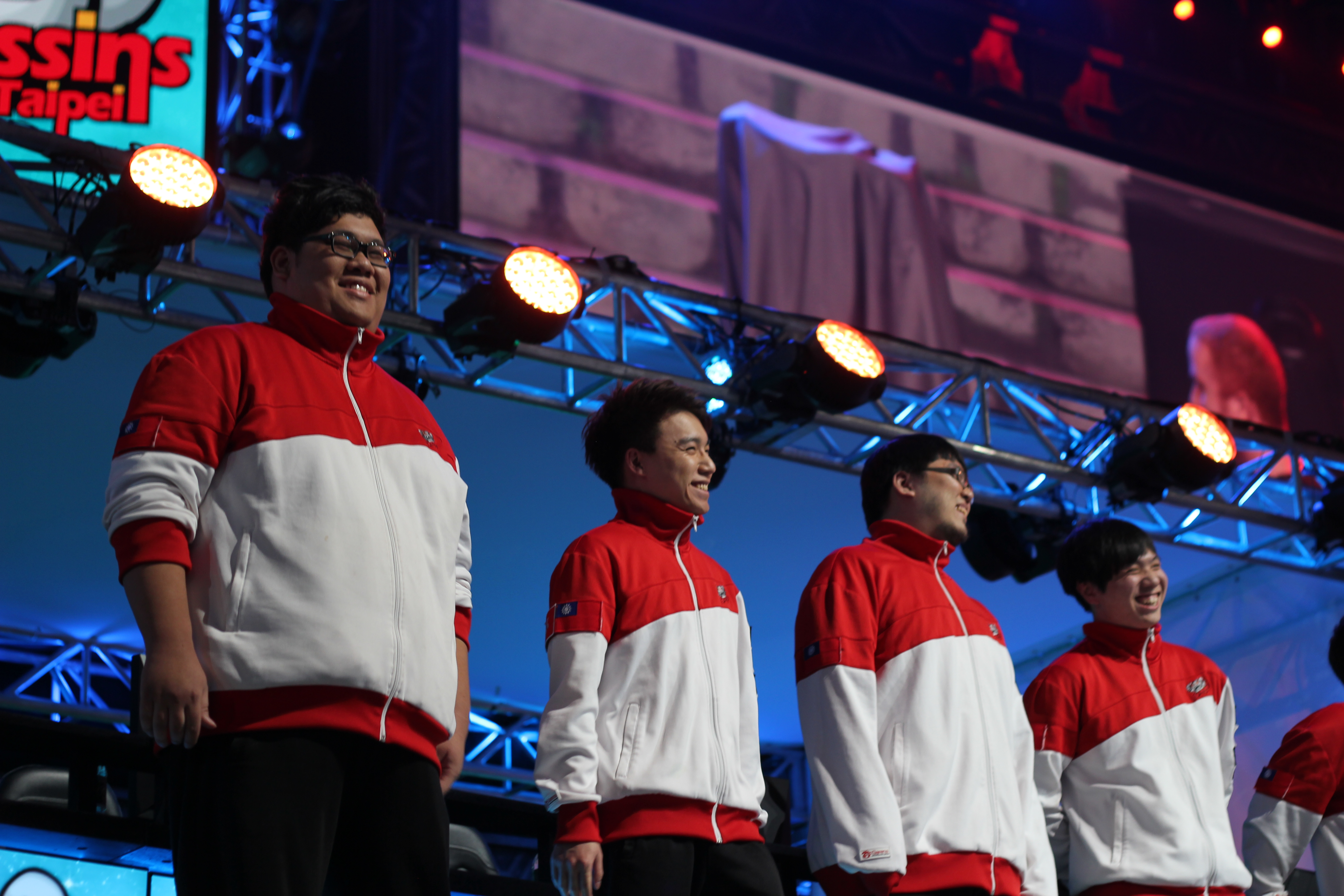 League of Legends players of the team Taipei Assassins at the League of Legends World Championship